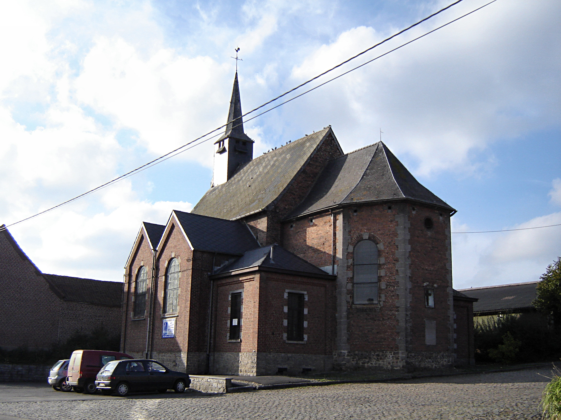 Eglise Saint-Léger in Ghislage.